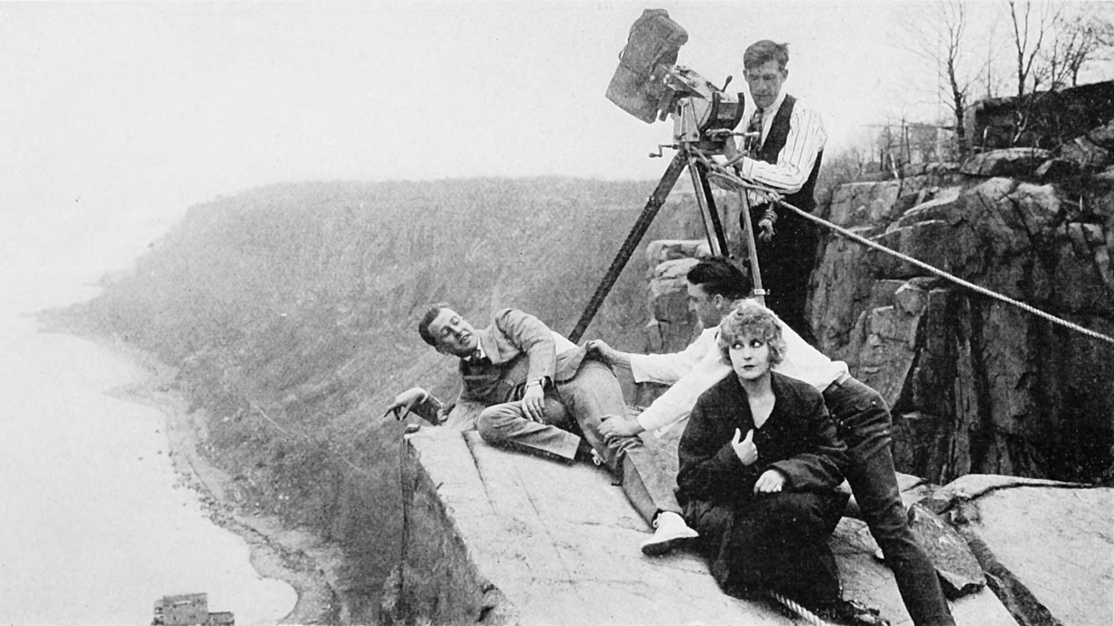 Still from the production of the American film serial The House of Hate with Pearl White and Antonio Moreno, with director George B. Seitz and cinematographer Arthur Charles Miller, on page 151 of William Lord Wright, Photoplay Writing (1922). The location of the shot is Cliffhanger Point on the Hudson Palisades